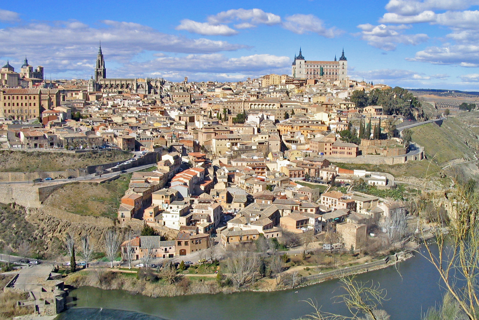 General view of Toledo (Province of Toledo, Castile-La Mancha, Spain).